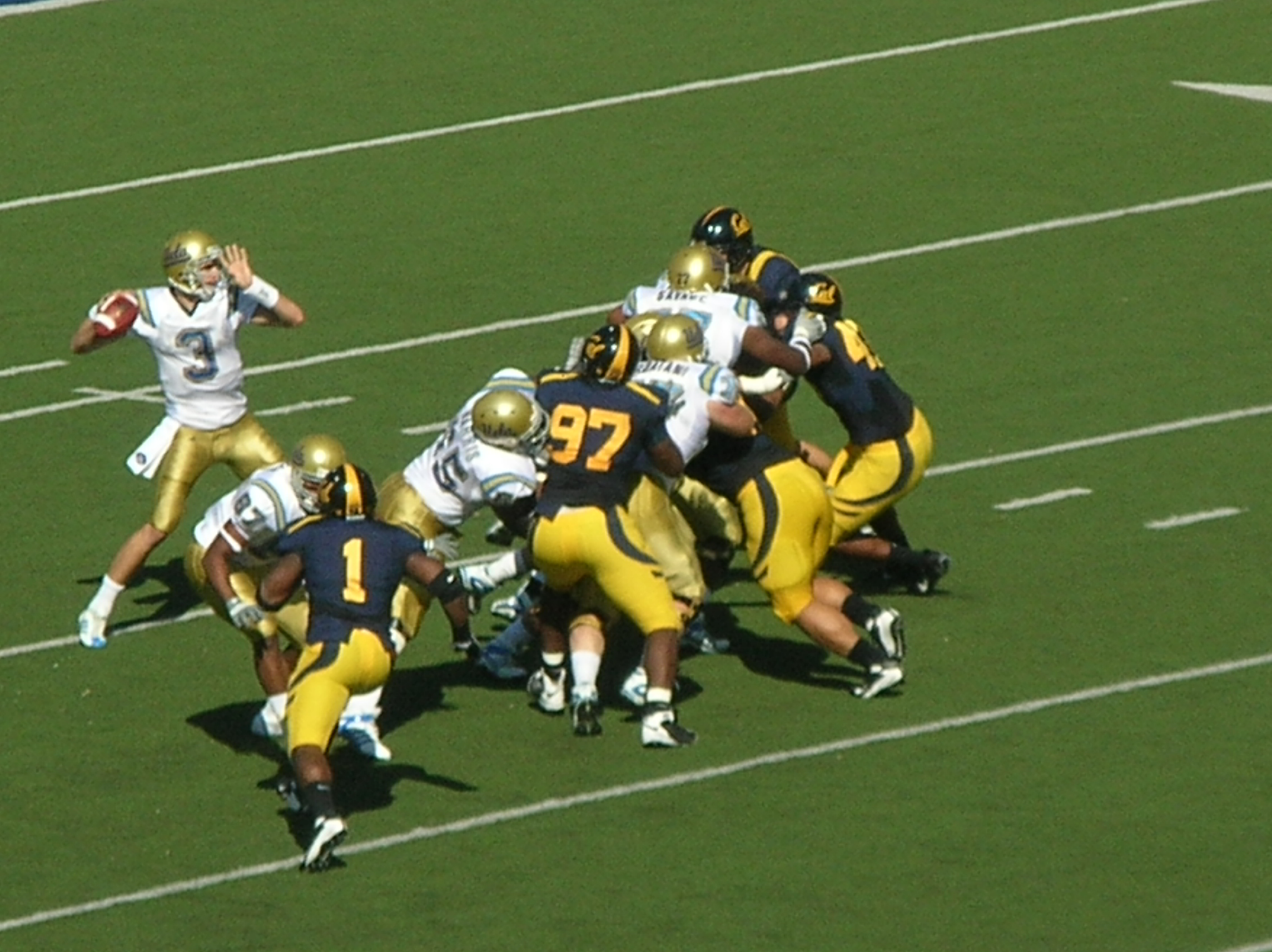 UCLA Bruins quarterback junior Kevin Craft (#3) passes at a road game at Cal. The Golden Bears won 41-20.